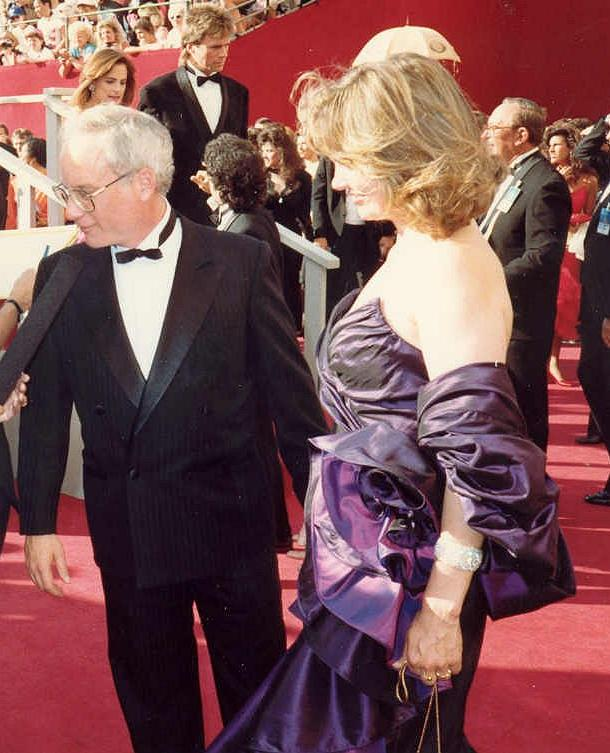 Actor Richard Dreyfuss and wife, Jeramie Rain at 1988 Annual Academy Awards.